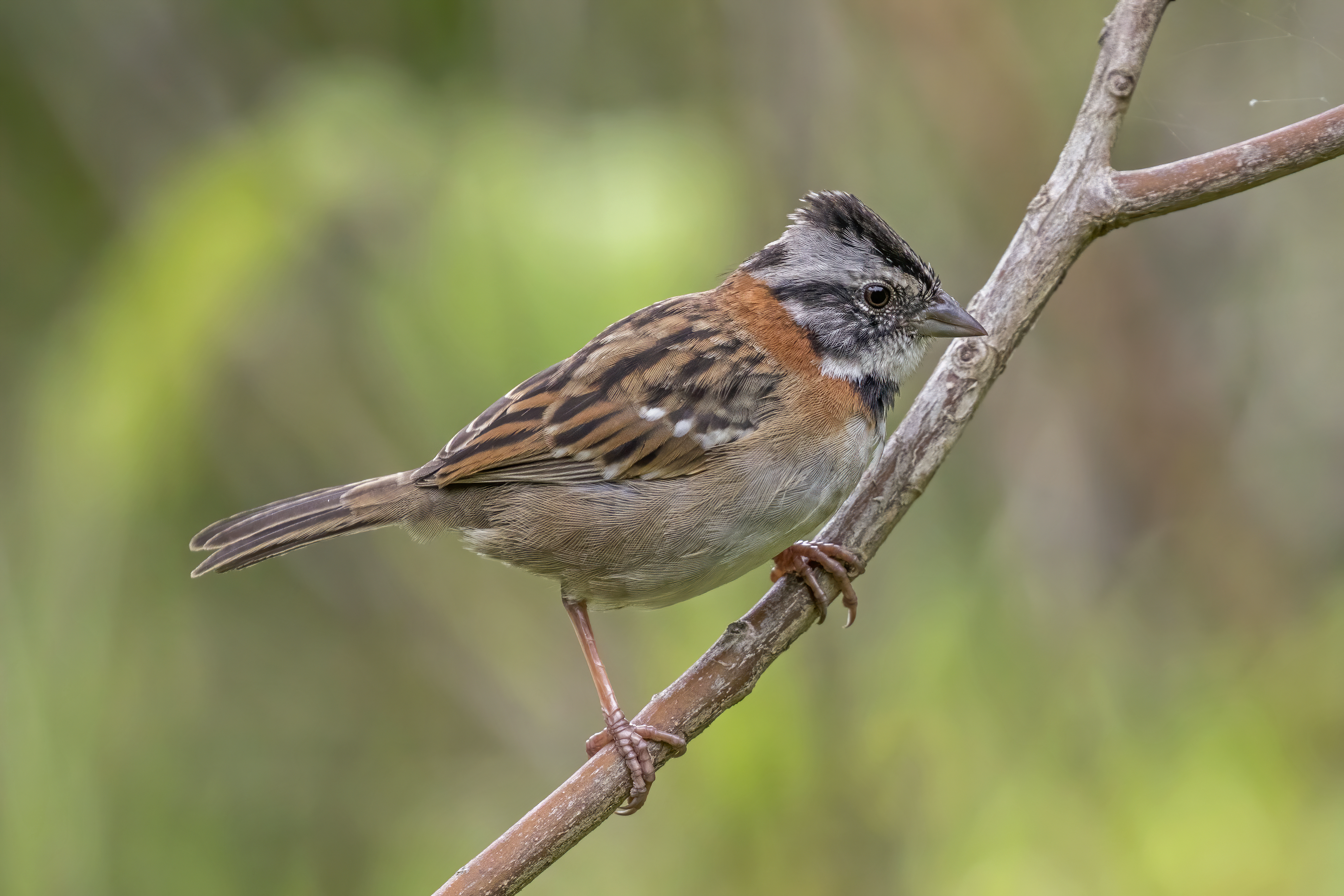 Rufous-collared sparrow (Zonotrichia capensis costaricensis), Mount Totumas cloud forest, Panama)